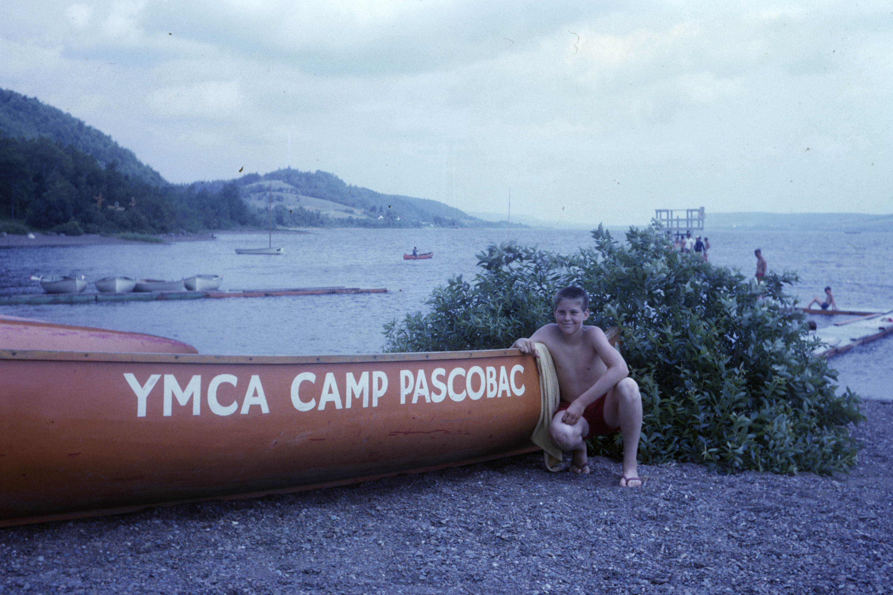 Camp Pascobac YMCA summer camp, Belleisle New Brunswick 1963, canoe and Wayne Ray